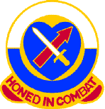 XXIV Corps DUI from [1]